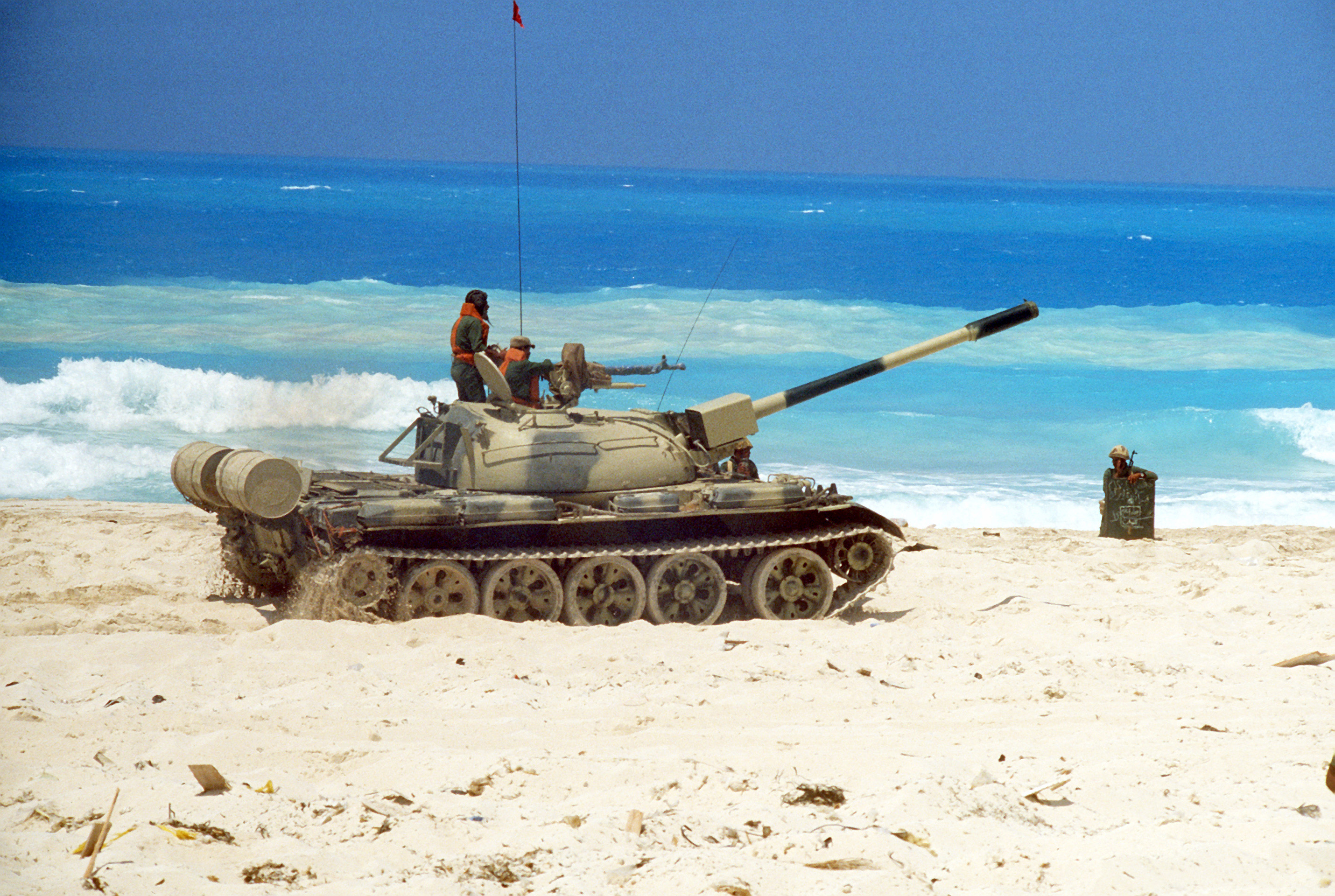 A T-55A modified by Egypt with DshK AAHMG mount and German AEG searchlight during the multinational joint service Exercise Bright Star '85.